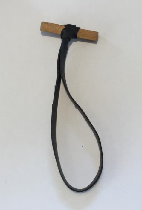 The original Willem Jackson (sort of cable tie) as they were initially made